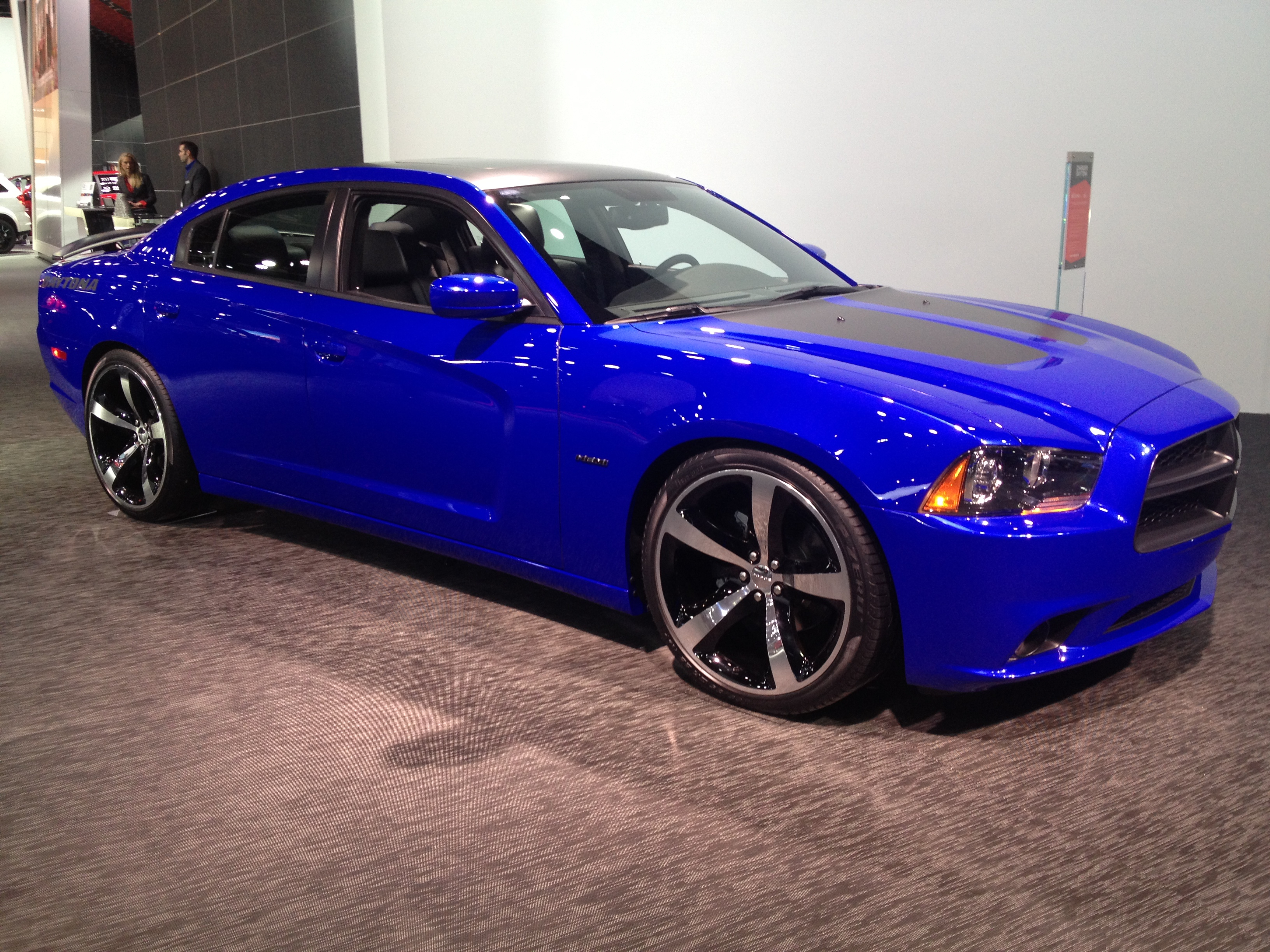 2013 North American International Auto Show Detroit, Michigan